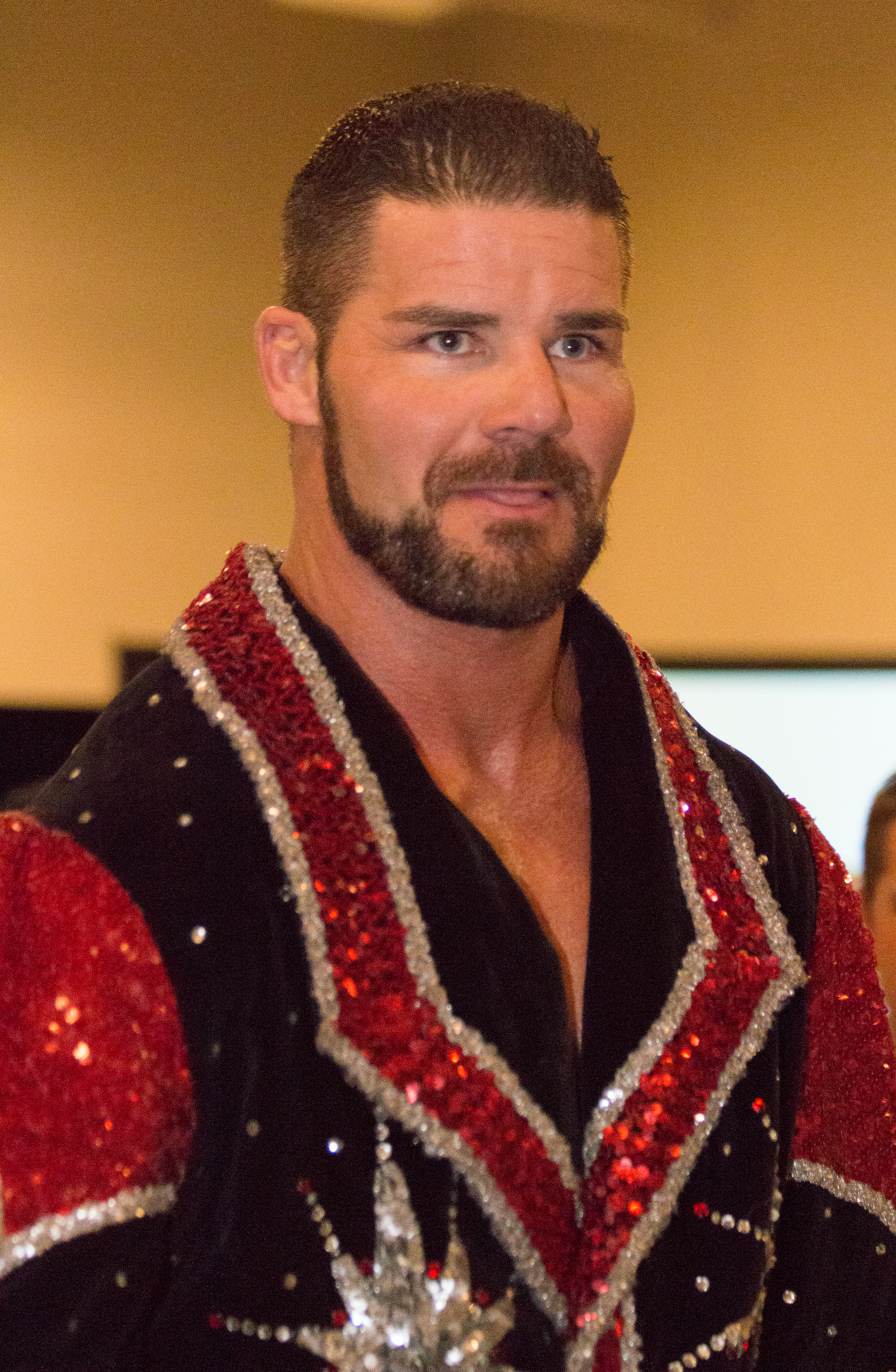 Independent wrestler Bobby Roode at the House of Hardcore 14 show in Niagara Falls, ON